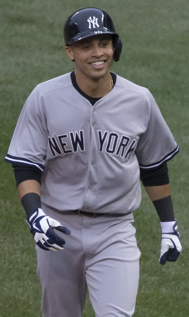 Rico Noel 10/03/15